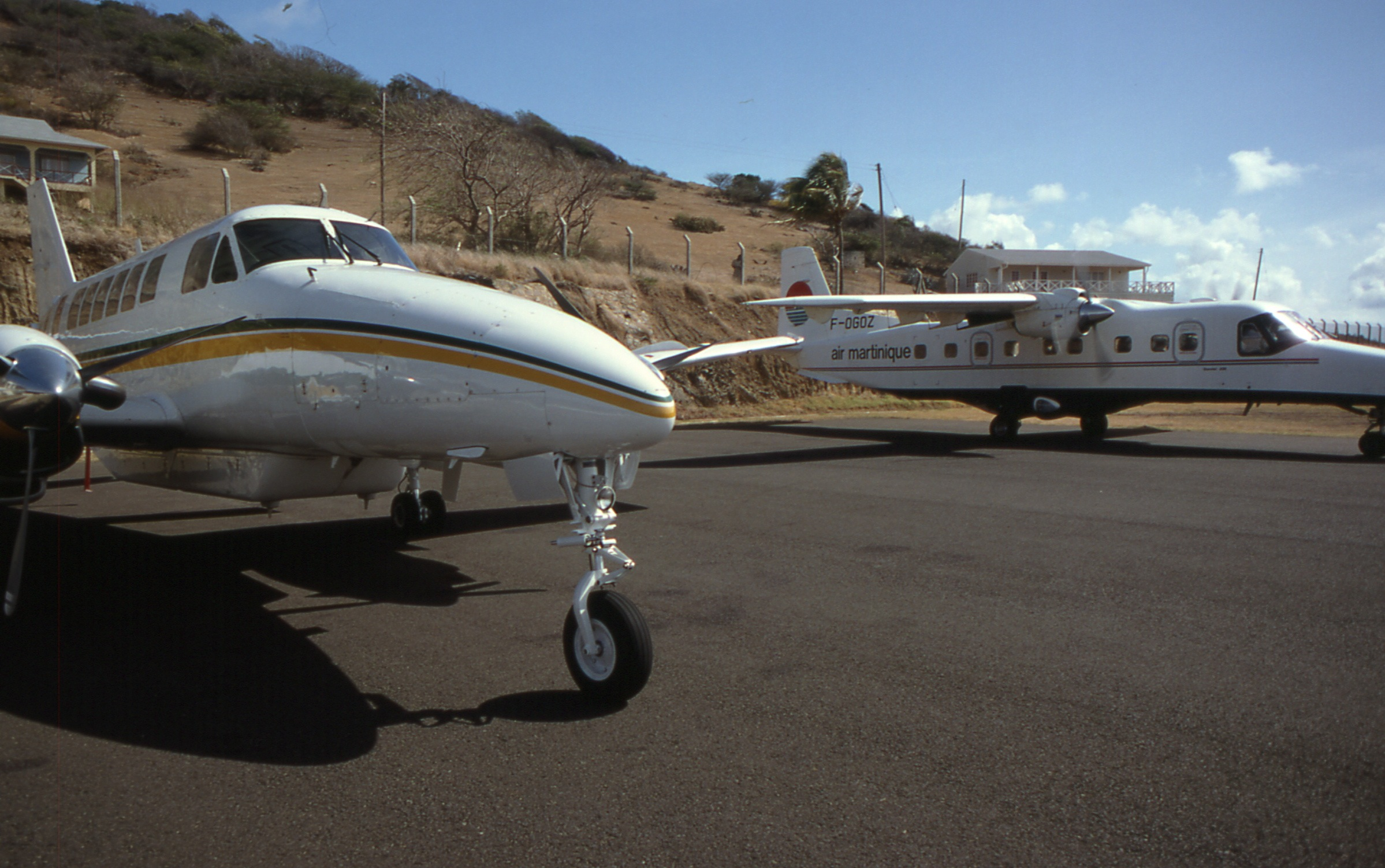 April 1994: Union Island airfield (TVSU). Air Martinique do 228 F-OGOZ reverses on its own power to its parking next to Helenair Beech 99 N899CA that has just arrived from Castries (TLCP), St. Lucia.